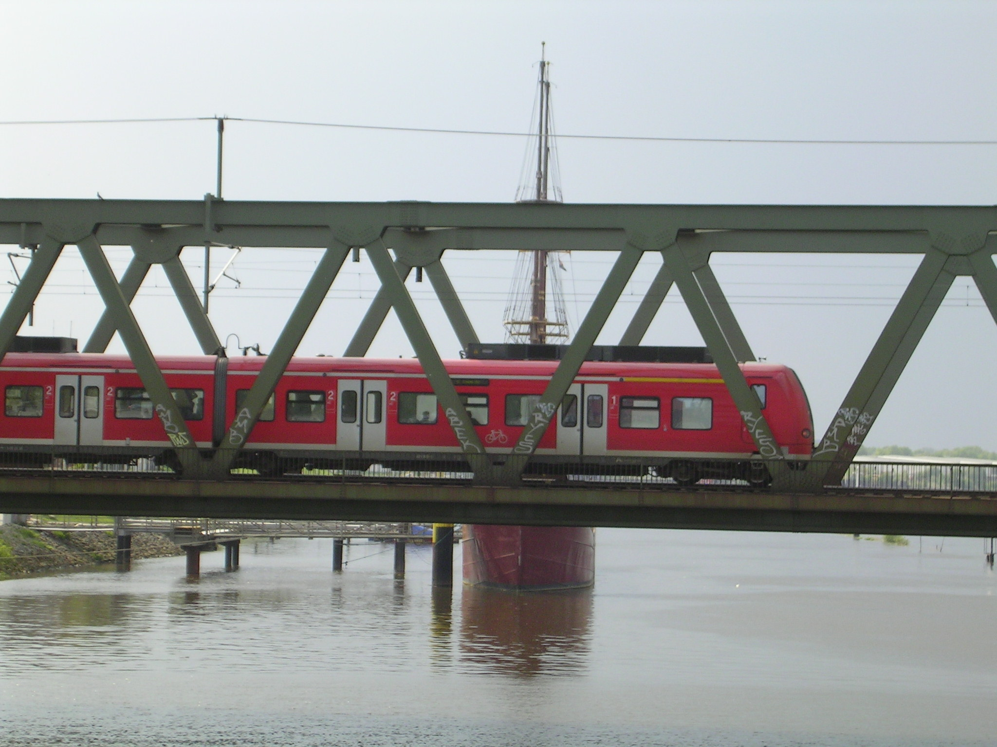 Weser River in Bremen city